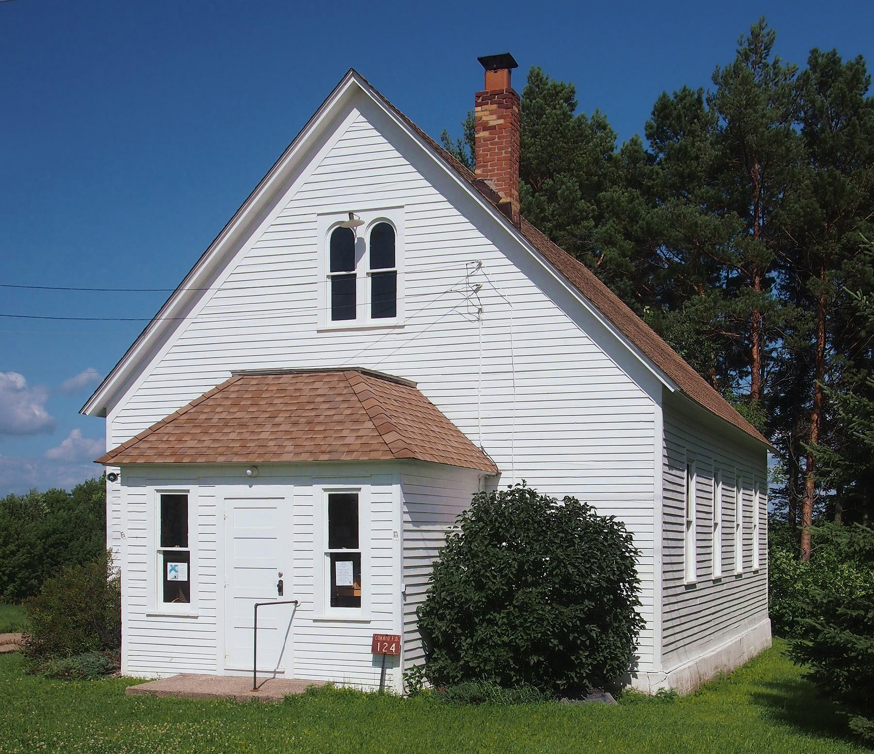 Cokato Temperance Hall (Cokaton P.R.S. Onnen Tovio Raittiusseura), Cokato Township, Minnesota, USA. Viewed from the west-southwest.